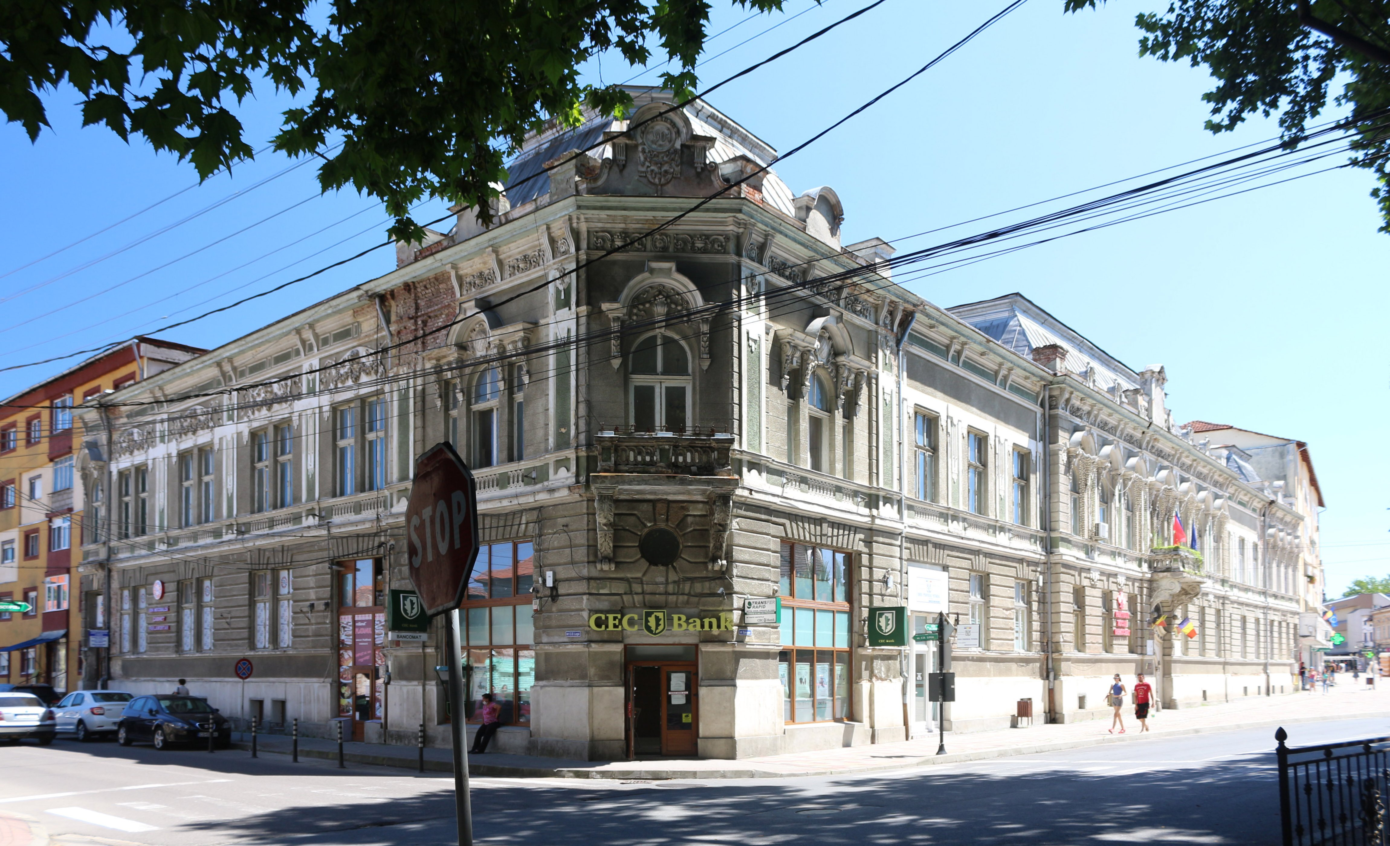 The old prefecture, now the Ioan Popasu Seminary, Episcopiei St., no. 3, Caransebeș, Romania, built